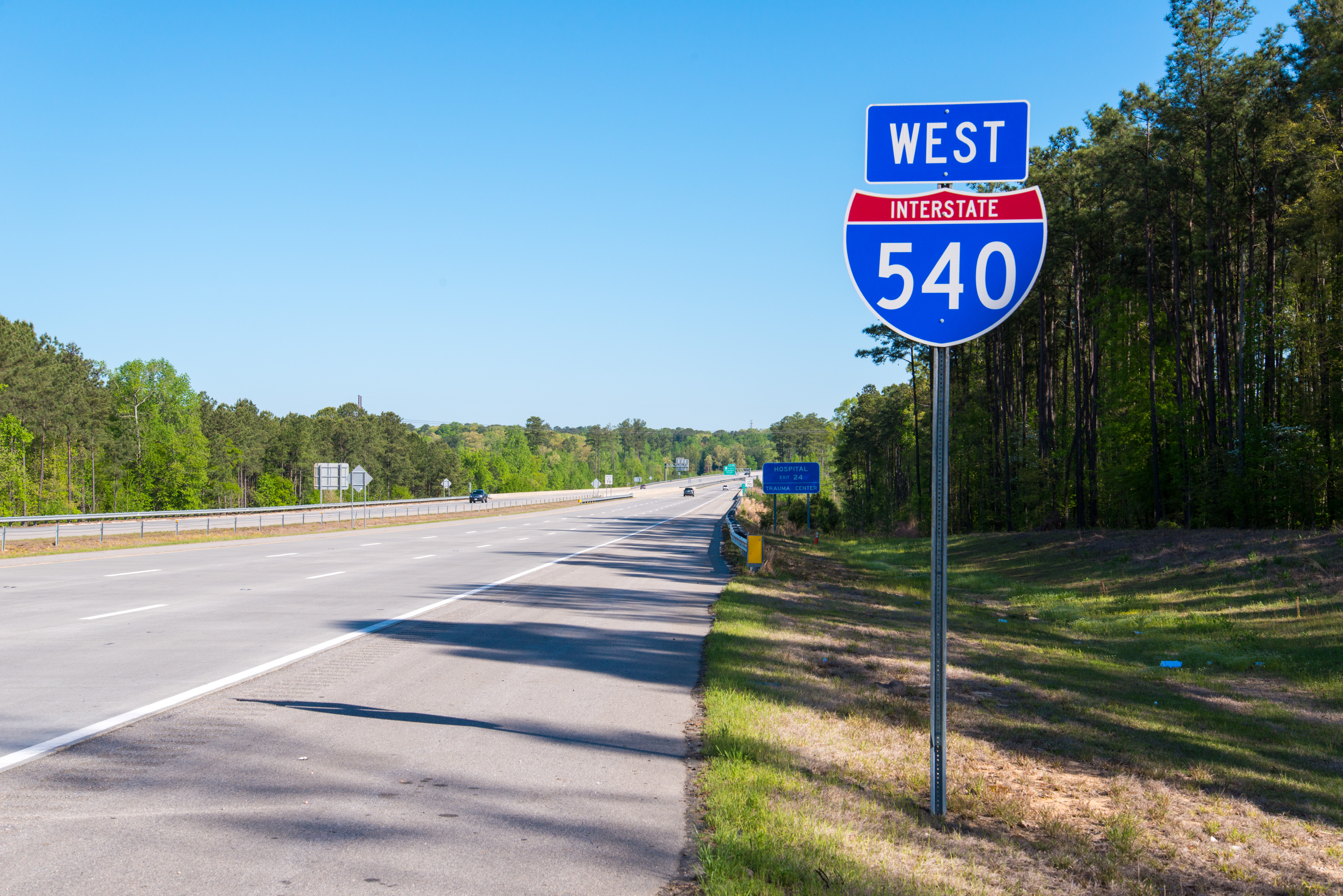 Picture of I-540 west, near Knightdale, North Carolina.